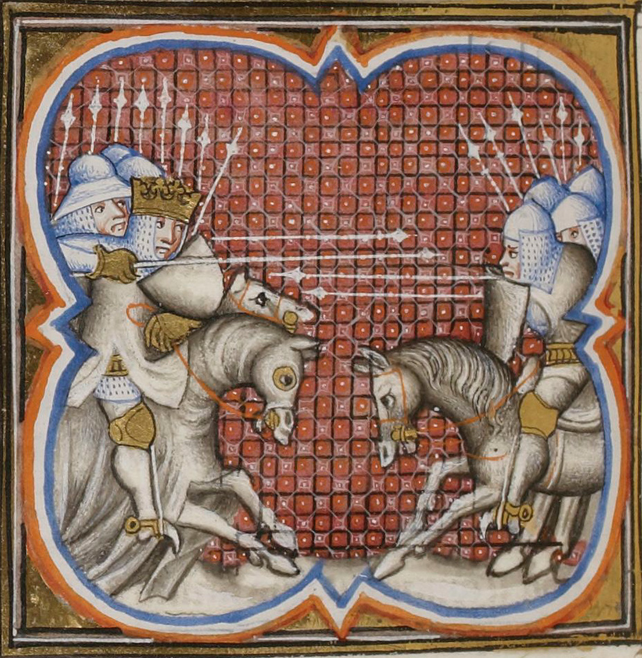 Battle of Tagliacozzo.